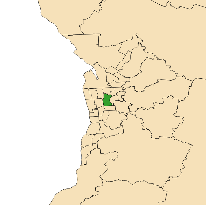 Electoral district 2018 boundaries shown in green